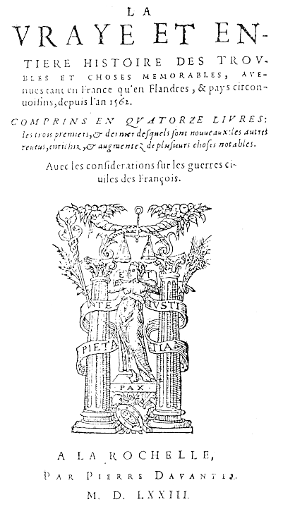 Title page of La Popelinière's Histoire des troubles (Genève, 1573).